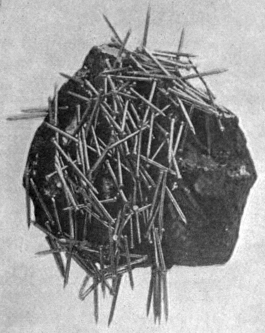 A lodestone, a piece of the mineral magnetite that is a natural magnet, from 1921 electrical engineering book. The caption of the picture said: "Natural magnet attracting iron nails".